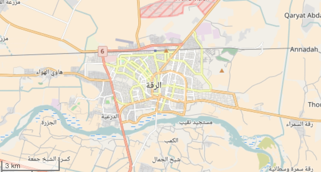 2017 map of Raqqa city map This map of Raqqa, Syria was created from OpenStreetMap project data, collected by the community. This map may be incomplete, and may contain errors. Don't rely solely on it for navigation.